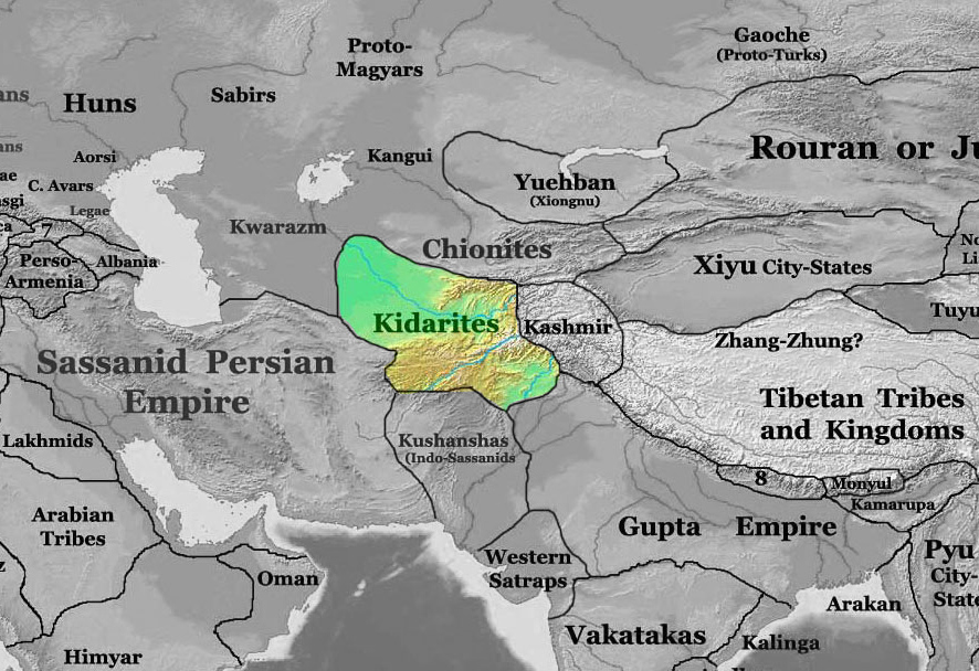 Map highlighting the Kidarite kingdom of 400 AD, modified from world history maps of Thomas A. Lessman, which was obtained from and is licensed under the Creative Commons Attribution-Share Alike 3.0 Unported license